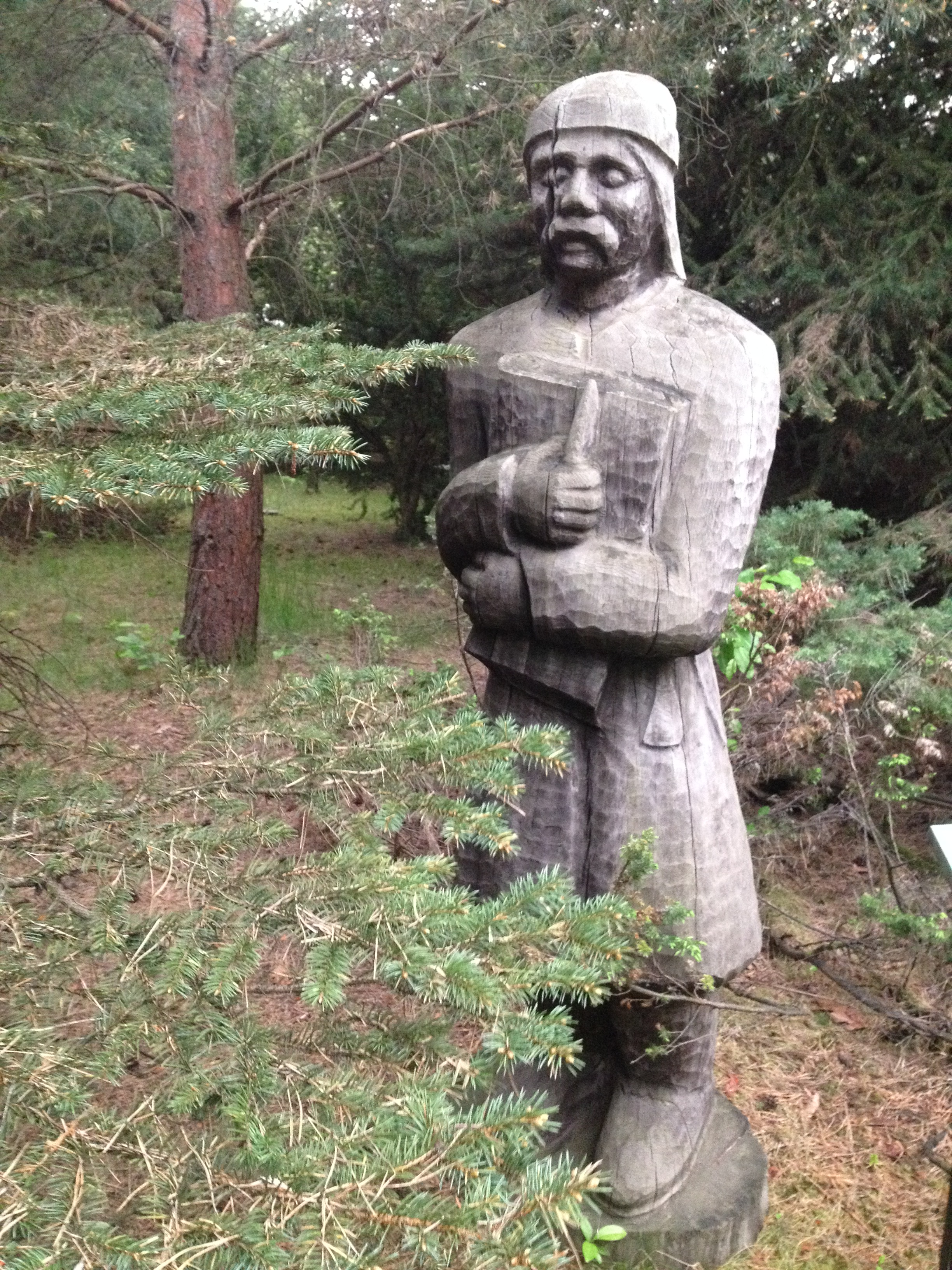 Wooden sculpture showing the legendary figure Krabat Hornjoserbsce: Drjewjana postawa Krabata w Běłej Wodźe